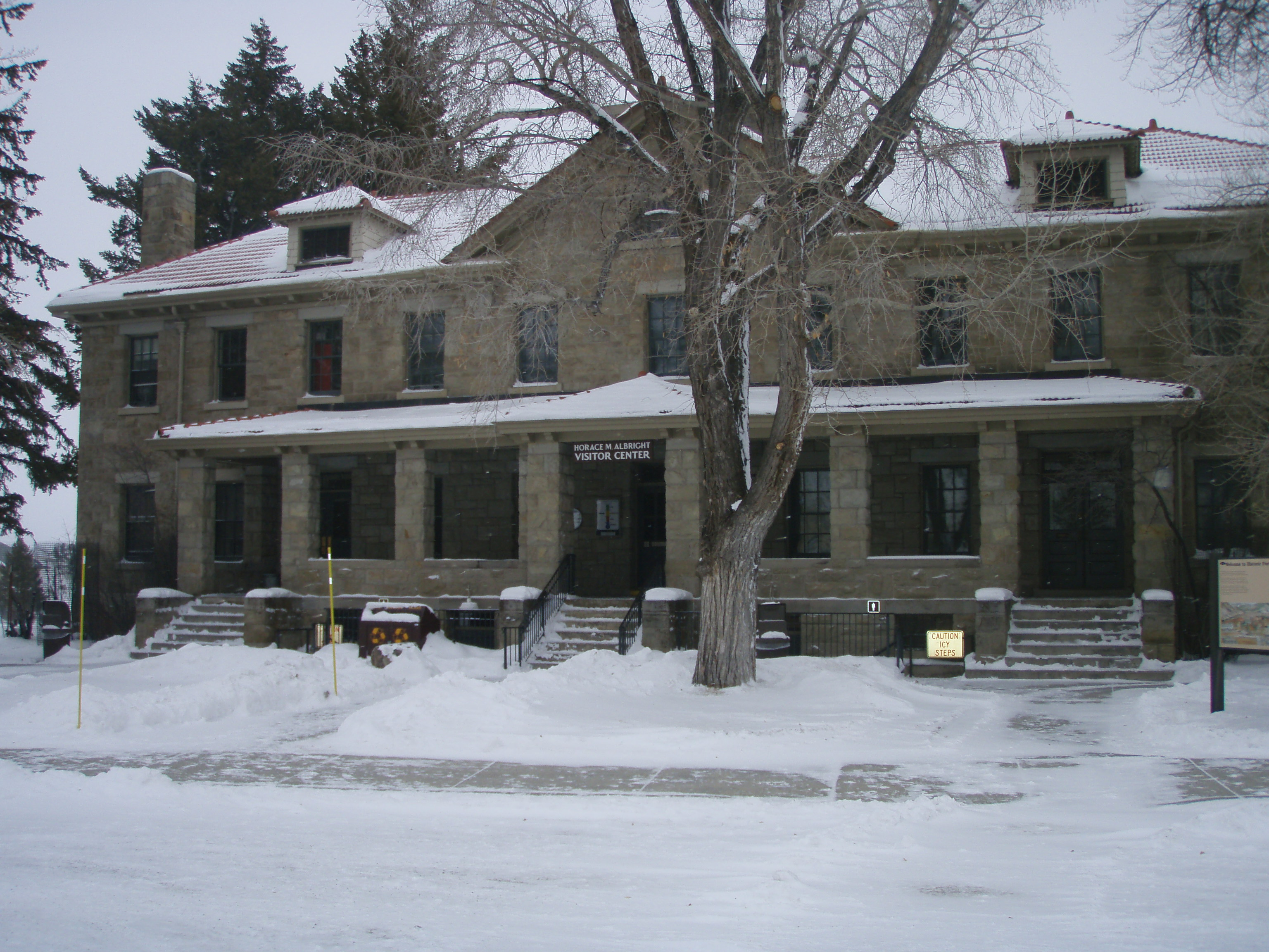 Horace Albright Visitor Center, Mammoth Hot Springs, Yellowstone National Park, December 2008